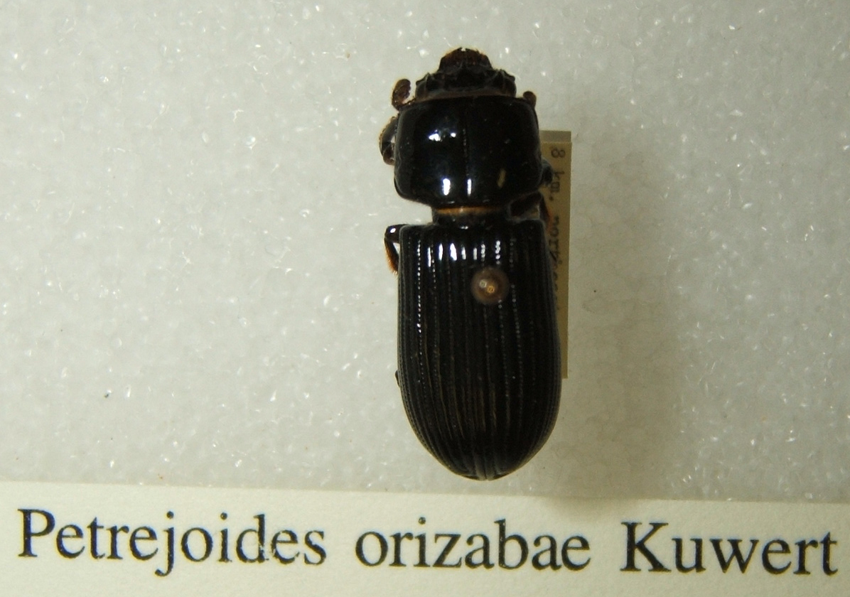 Petrejoides orizabae adult taken by Shawn Hanrahan at the Texas A&M University Insect Collection in College Station, Texas.